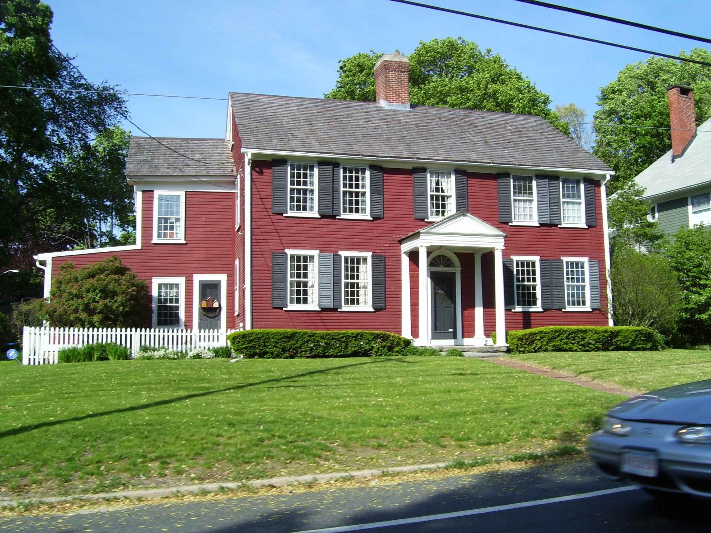 This is my 2008 photo of a house in Union Village, RI.